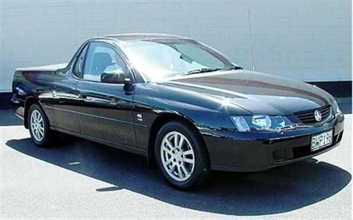 2003–2004 Holden VY II Ute S.